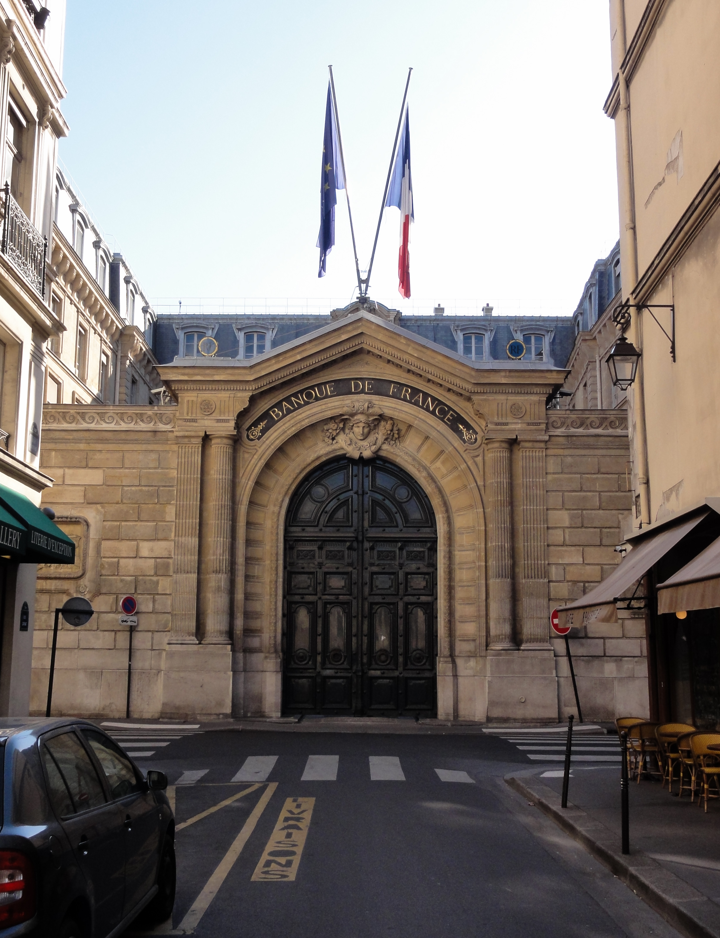 Hôtel de Toulouse, now occupied by the the Banque de France